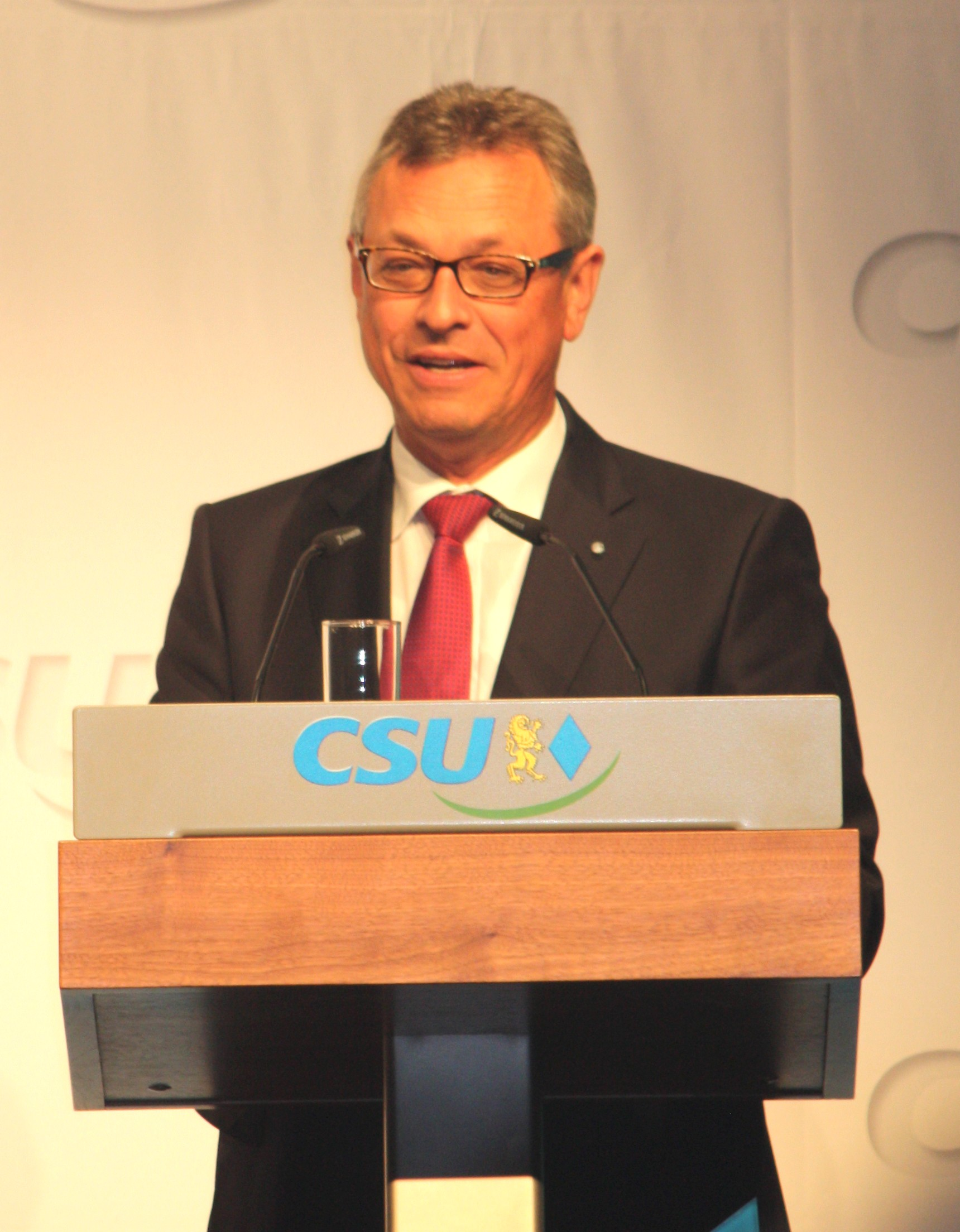 Siegfried Schneider